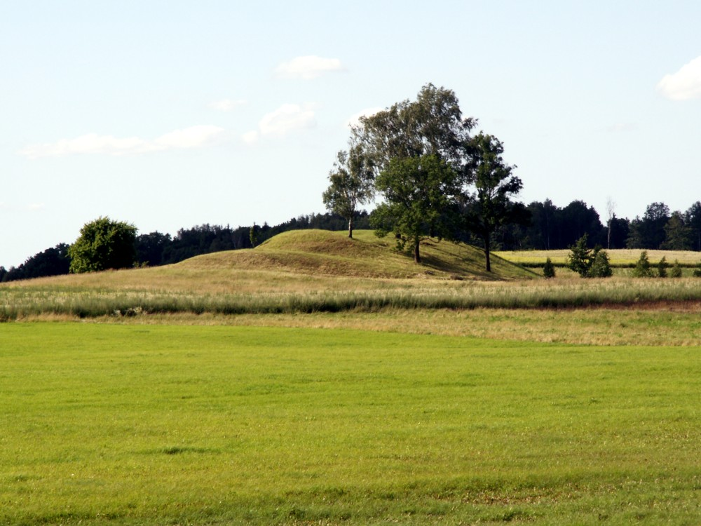 Hillfort Normančiai in Šiauliai district, Lithuania